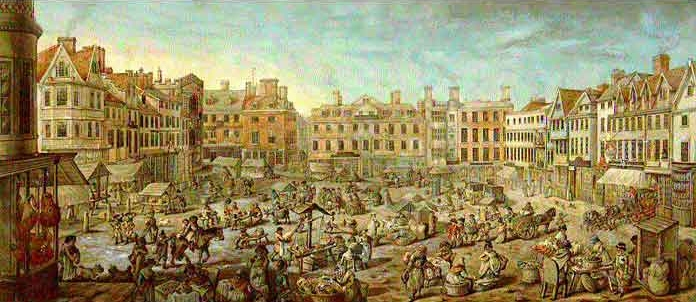 Norwich Market Place, 1799, Robert Dighton (1752-1814).